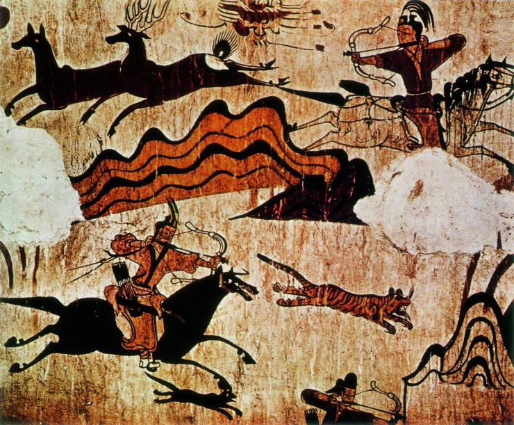 Tomb of the Hunters, Goguryeo mural